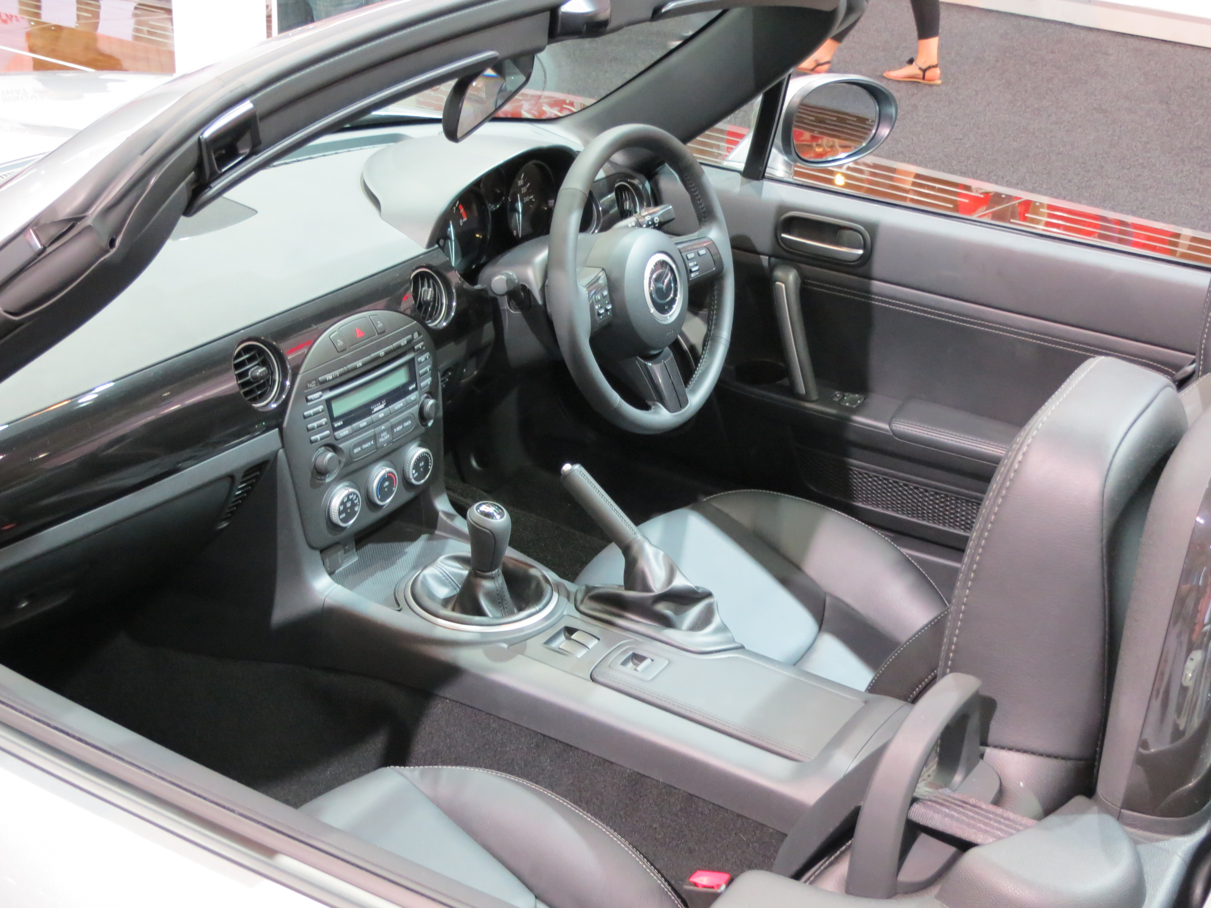 2012 Mazda MX-5 (NC Series 2 MY13) hardtop. Photographed at the 2012 Australian International Motor Show, Sydney, New South Wales, Australia.